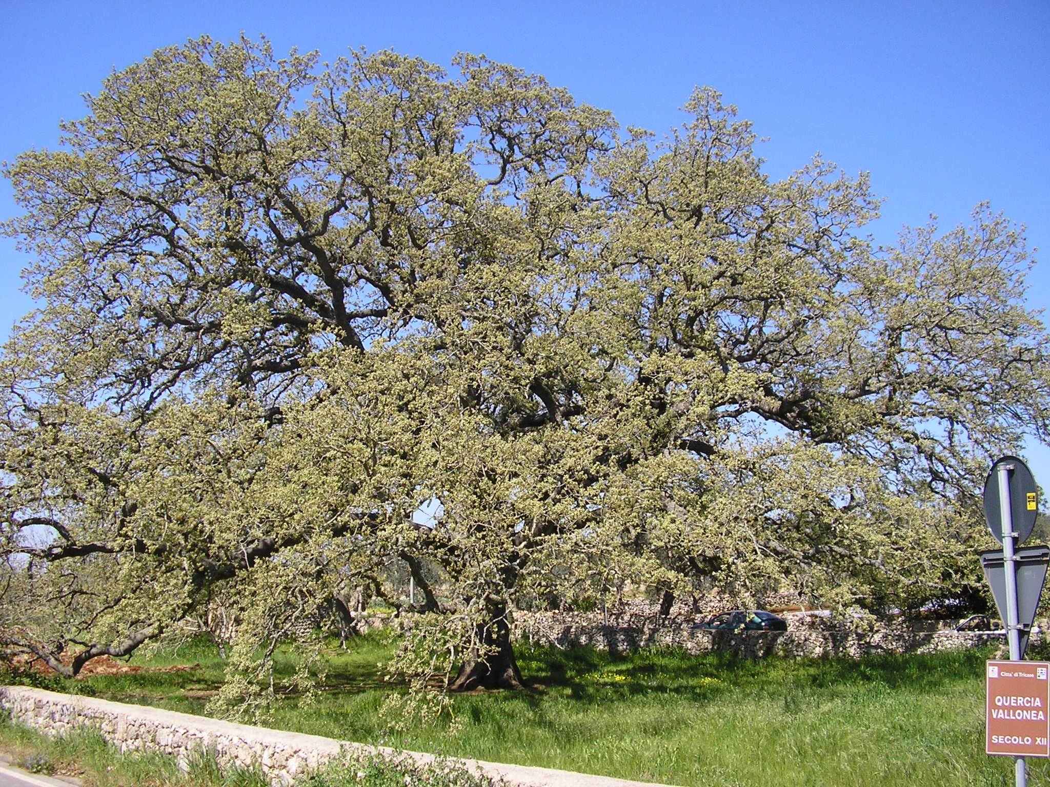 This Quercus macrolepis (syn. Quercus vallonea, Quercus ithaburensis var macrolepis) tree was born in the XII century